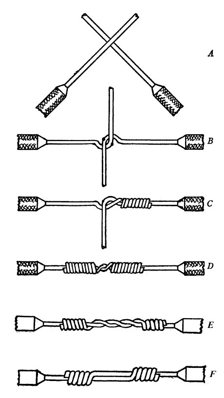 Diagram showing how to make a short Western Union wire splice (A through D), and two images of longer variations on the splice (E & F)